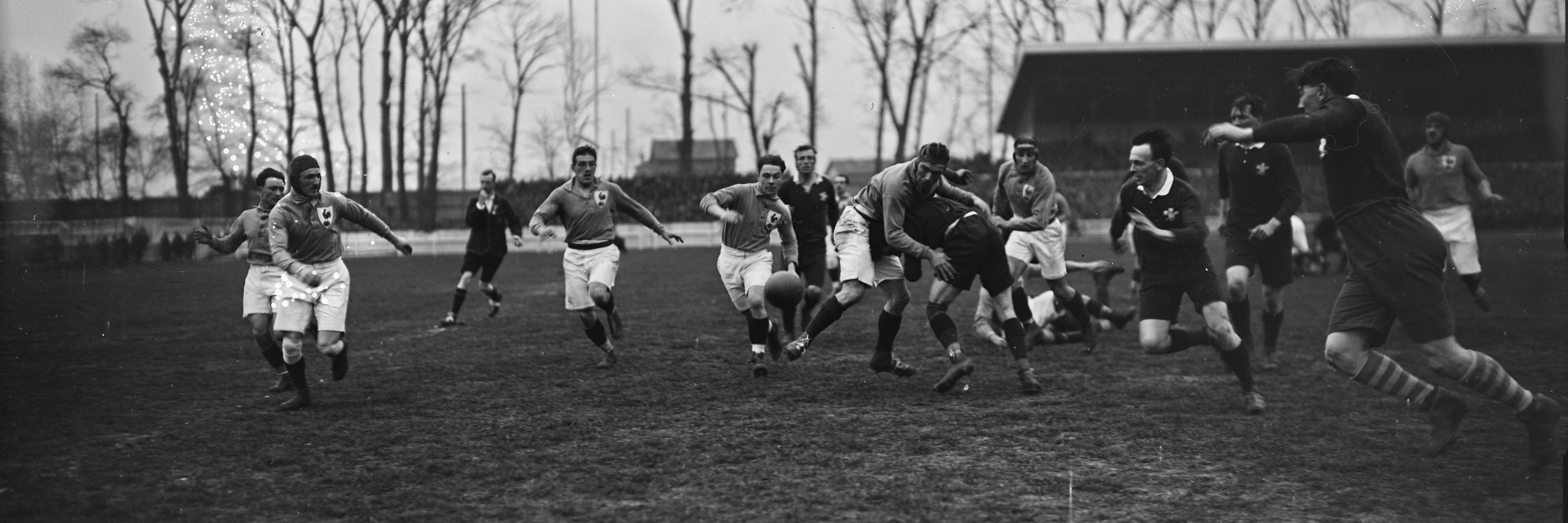 France (in light colours) playing Wales (in dark colours) in international rugby union. At Stade Colombes, Paris, in the 1922 Five Nations Championship.